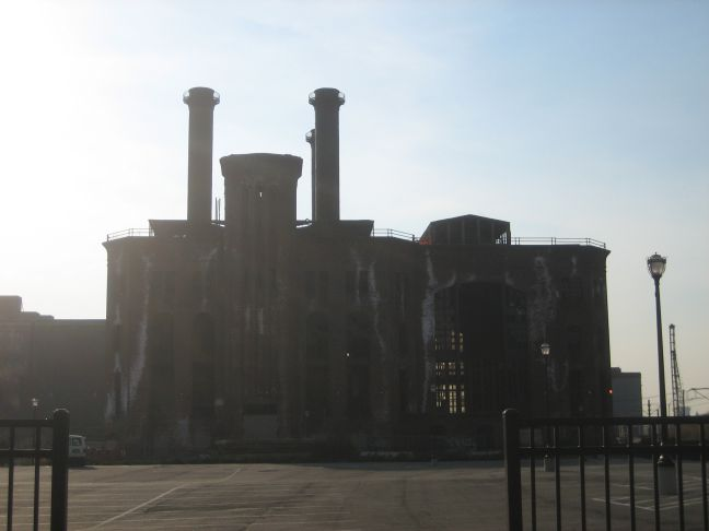 Hudson and Manhattan Railroad Powerhouse